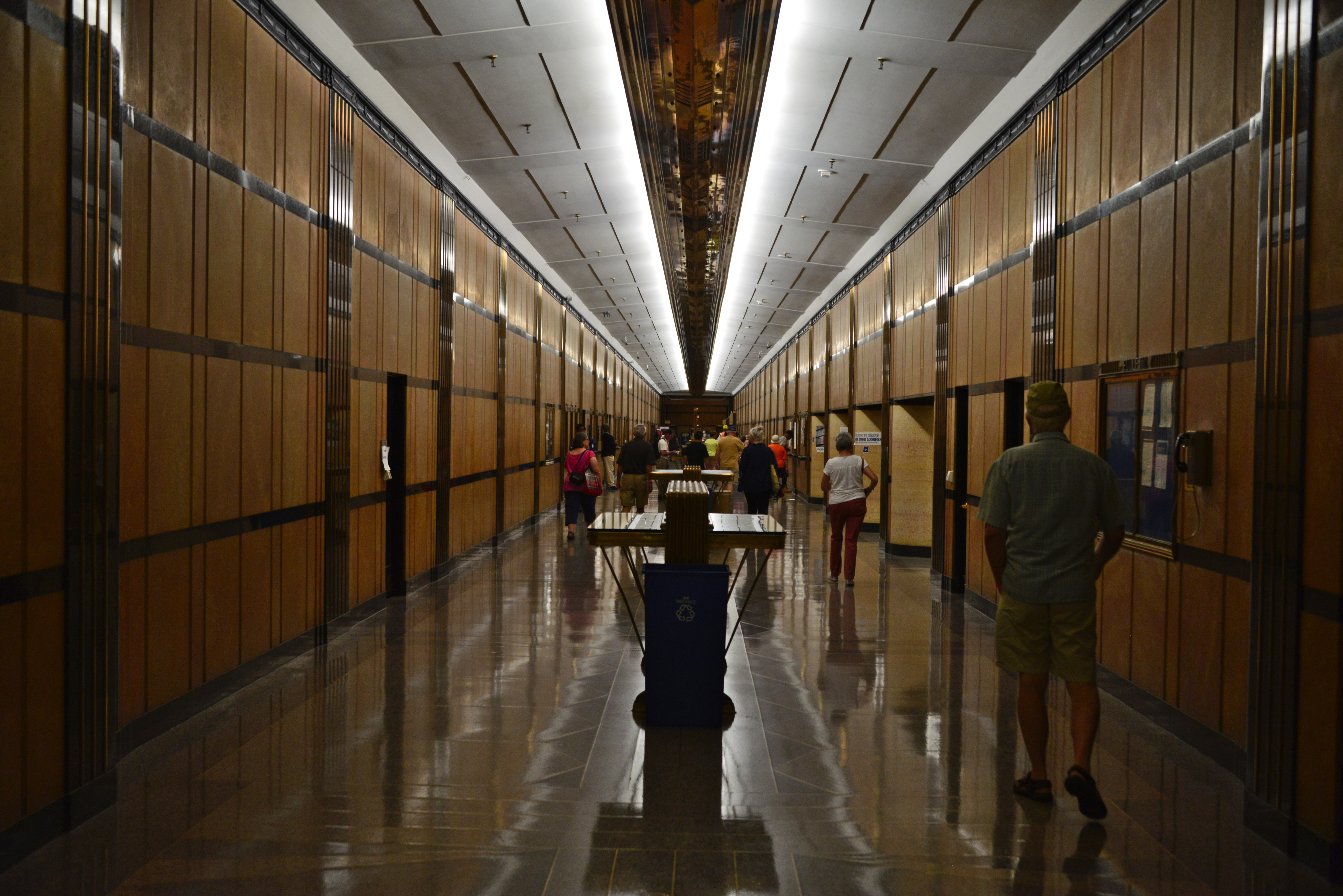 A very long hall inside the art-deco Minneapolis Post Office.